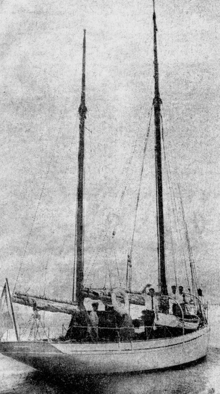 Asgard, Near Dublin Late 60's